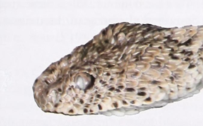 Bonn zoological bulletin - Bitis peringueyi Cut-out from original (Bonn zoological bulletin (2010) (20207763459).jpg) shown below